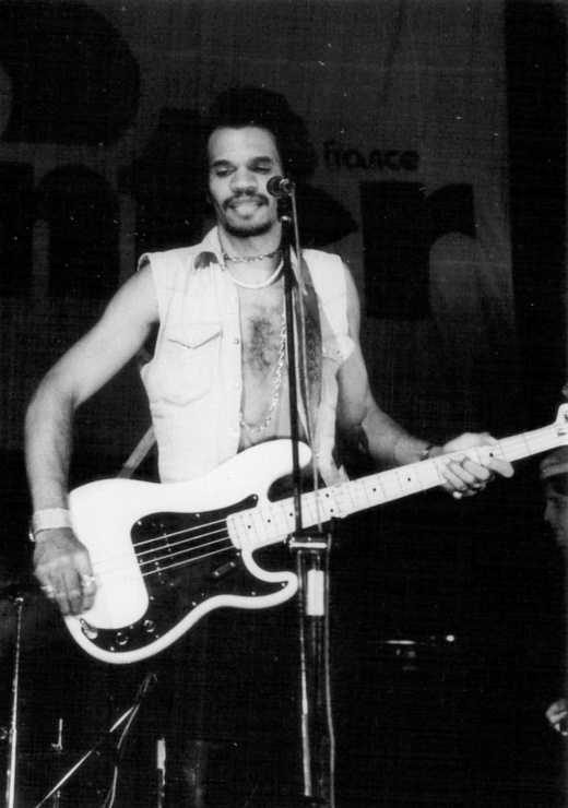 Blues bass guitarist Benny Turner in Paris, France